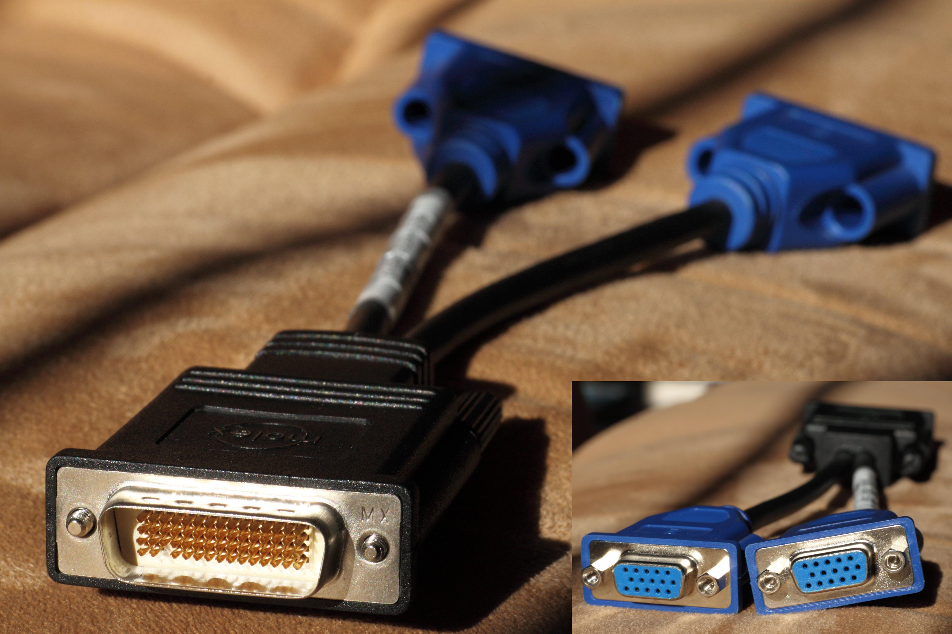 Low Force Helix Adapter for Multi-monitor graphics cards (Male)